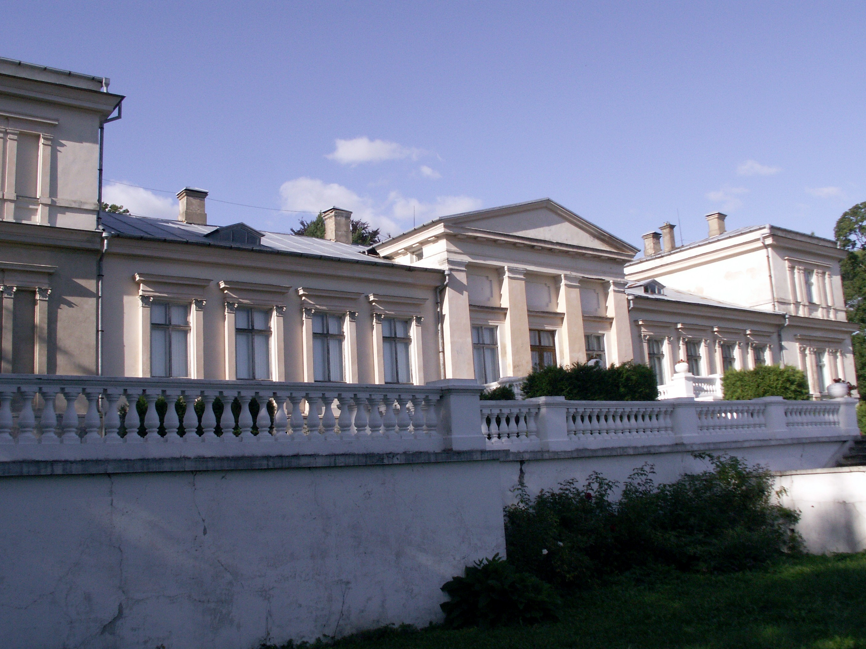 Renavas in Mažeikiai district, Lithuania